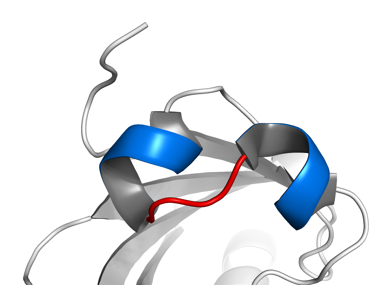 Basic-helix-loop-helix structural motif of proteins. Two helices (blue) are connected by a short loop region (red). Based on the structure of Aryl hydrocarbon receptor nuclear translocator (ARNT): PDB ID 1X0o